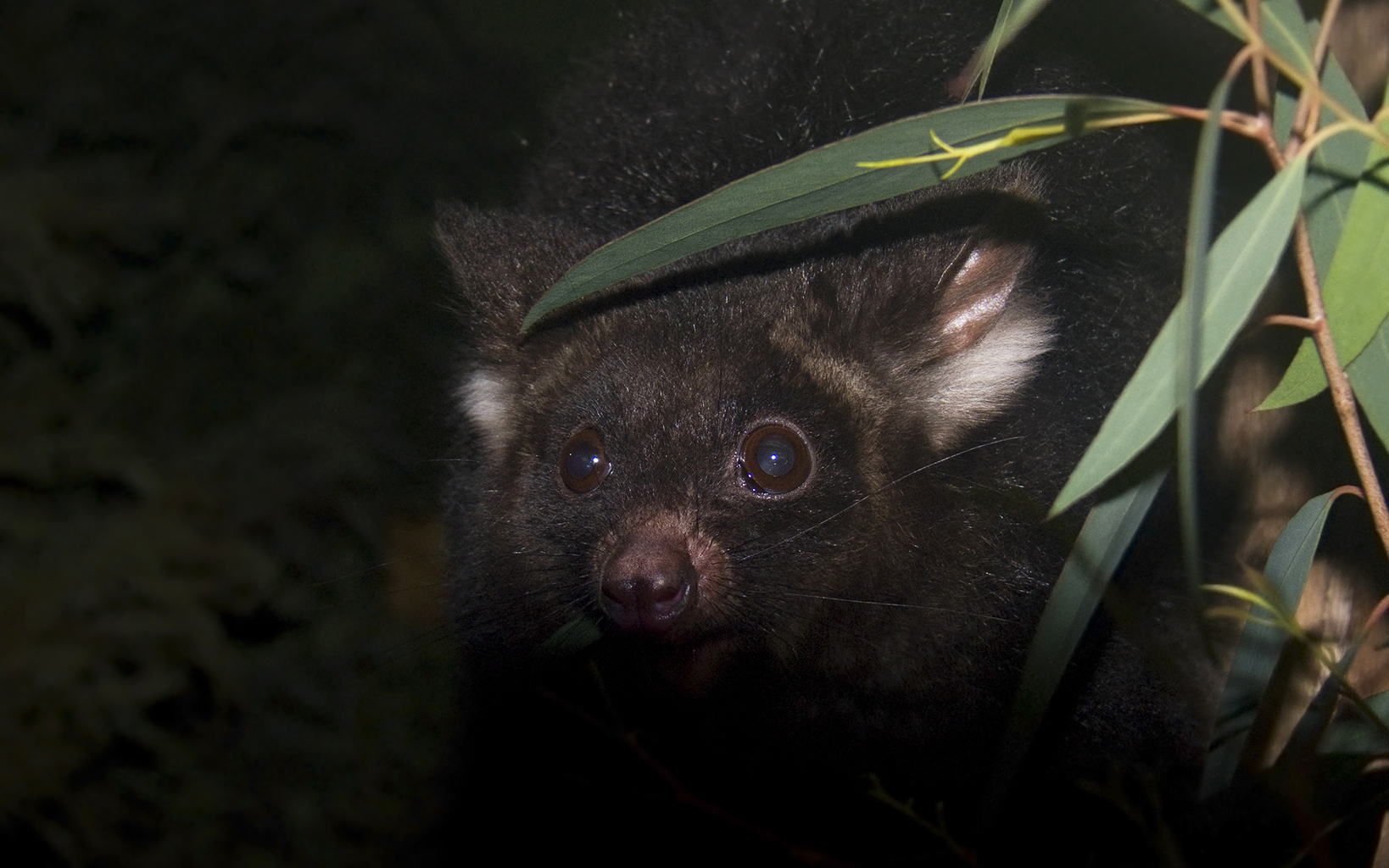 The head of a greater glider, Petauroides volans, at night.